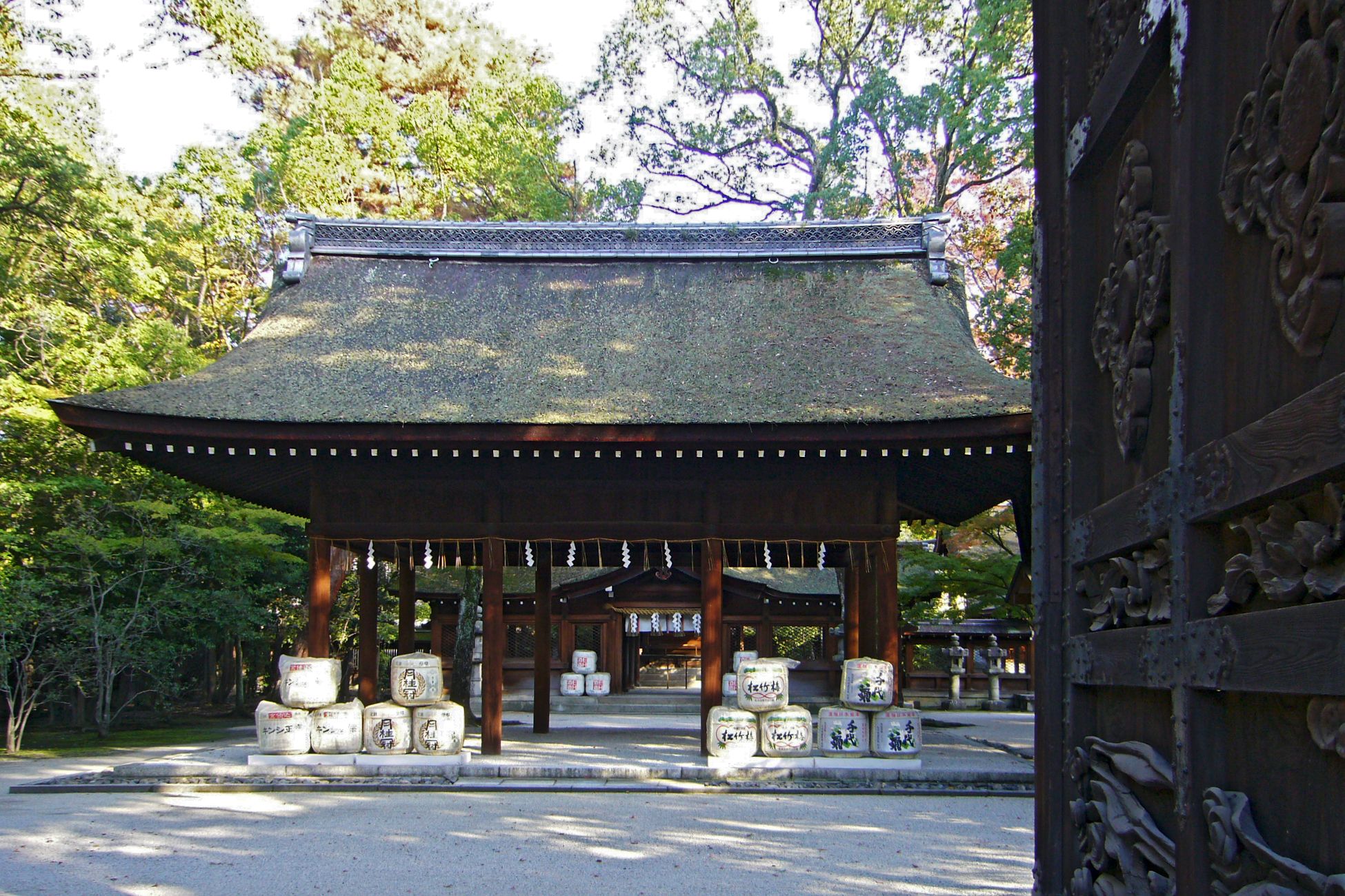 Toyokuni-jinja, in Kyoto, Kyoto prefecture, Japan